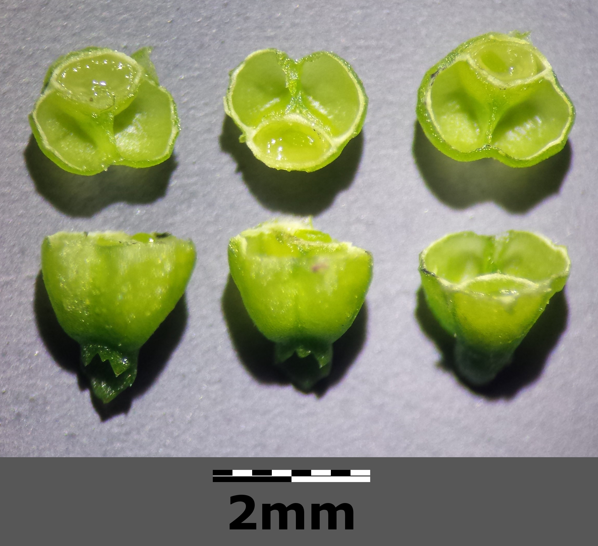 Fruits cut-opened Taxonym: Valerianella rimosa ss Fischer et al. EfÖLS 2008 ISBN 978-3-85474-187-9 Location: Prater, Vienna-Leopoldstadt - ca. 160 m a.s.l. Habitat: wayside